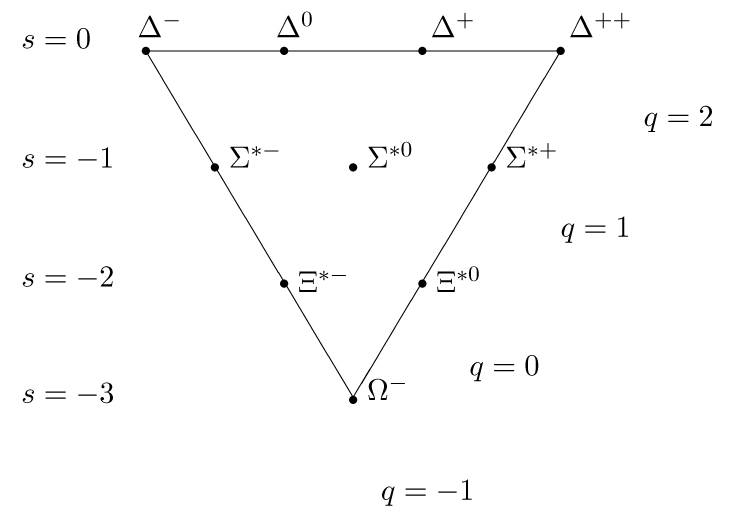 Baryons organized into an decuplet according to the Eightfold way